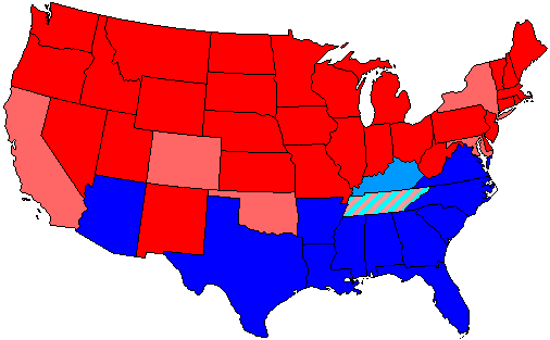 Summary of party control of U.S. house seats in the 67th United States Congress following election. Stripes indicate a tie between two or more parties. Legend: 80.1-100% Democratic seat majority 60.1-80% Democratic seat majority 60% or less Democratic seat plurality 60% or less Republican seat plurality 60.1-80% Republican seat majority 80.1-100% Republican seat majority